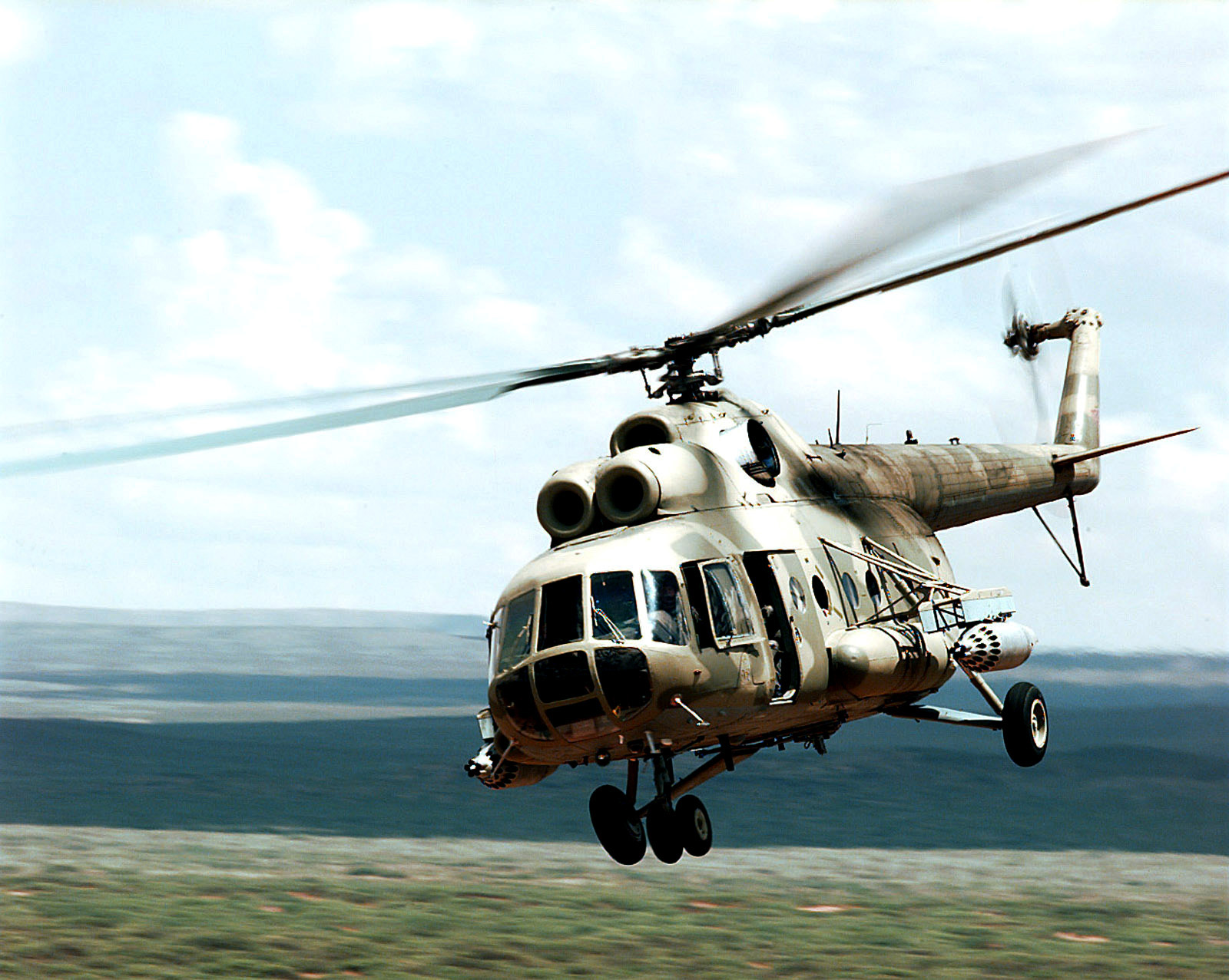 A Mi-8 "Hip" helicopter simulates an attack while being scoped by a Dutch Stinger Missile Platoon (Not shown) on McGregor Range, New Mexico during Roving Sands '99, June 21, 1999. Roving Sands is a one-of-a-kind event that is the world's largest Joint Tactical Air Operations exercise. It melds the Command, Control, Communications, and Computer Elements; Air Defense Artillery; and Aircraft; of the Army, Air Force, Marines, Navy, and Multinational Forces, into a Joint Integrated Air Defense System (IADs). Location: MCGREGOR RANGE, NEW MEXICO (NM) UNITED STATES OF AMERICA (USA)